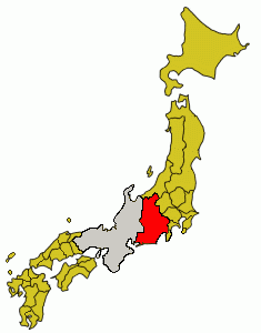 Map of territories of Oda Nobunaga at 1582 (in grey), and Tokugawa Ieyasu from 1560 to 1589 (in red). Page 3. Image:Japan_prov_map_mikawa.png